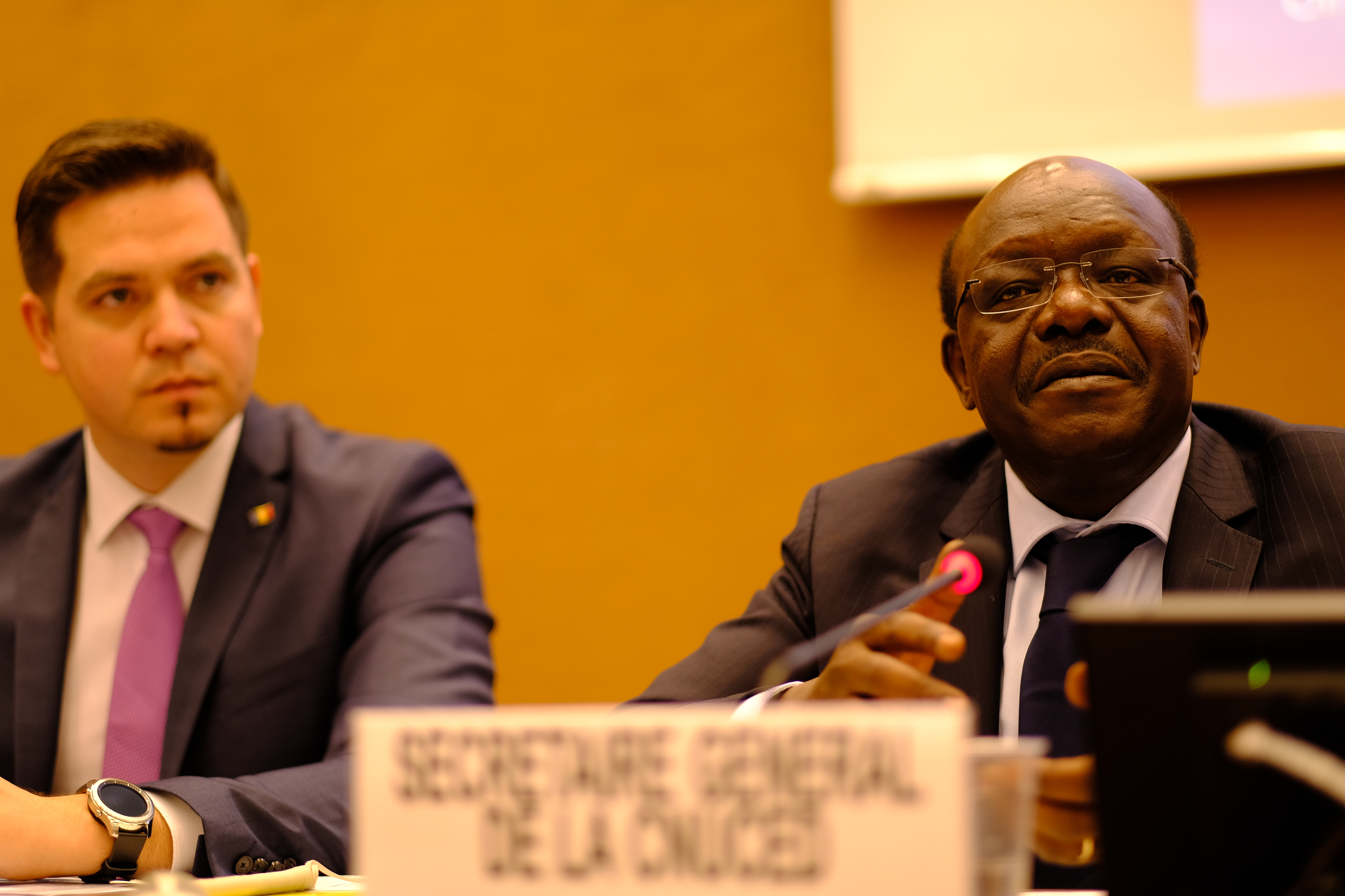 High-Level Segment on Item 2 (a) – New ways in which the United Nations could address the crisis of multilateralism and trade and its development machinery and what the contribution of UNCTAD would be. •H.E. Mr. Mukhisa Kituyi, Secretary-General, UNCTAD •H.E. Mr Tudor Ulianovschi, Minister of Foreign Affairs and European Integration of the Republic of Moldova •H.E. Ms. Cecilia Malmström, EU Trade Commissioner •H.E. Mr. Yonov Agah, Deputy Director-General, WTO •H.E. Mr. Souleymane Diarrassouba (tbc) Minister of Trade, handicrafts and support to SME, Ivory Coast. Moderator: Mr. Tom Miles, Chief Correspondent, Reuters Geneva